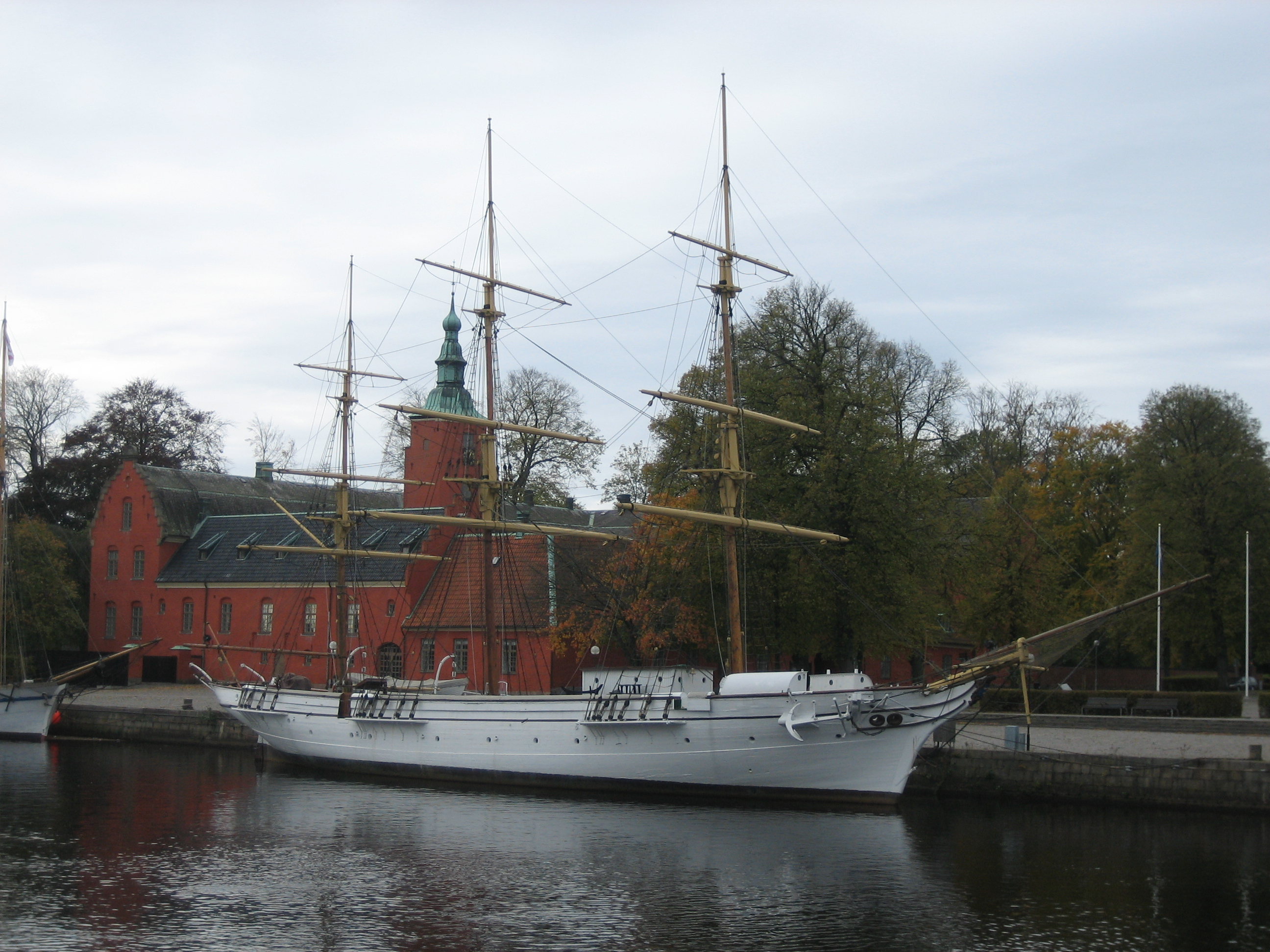 Sailing ship Najaden in Front of Halmstads Castle.